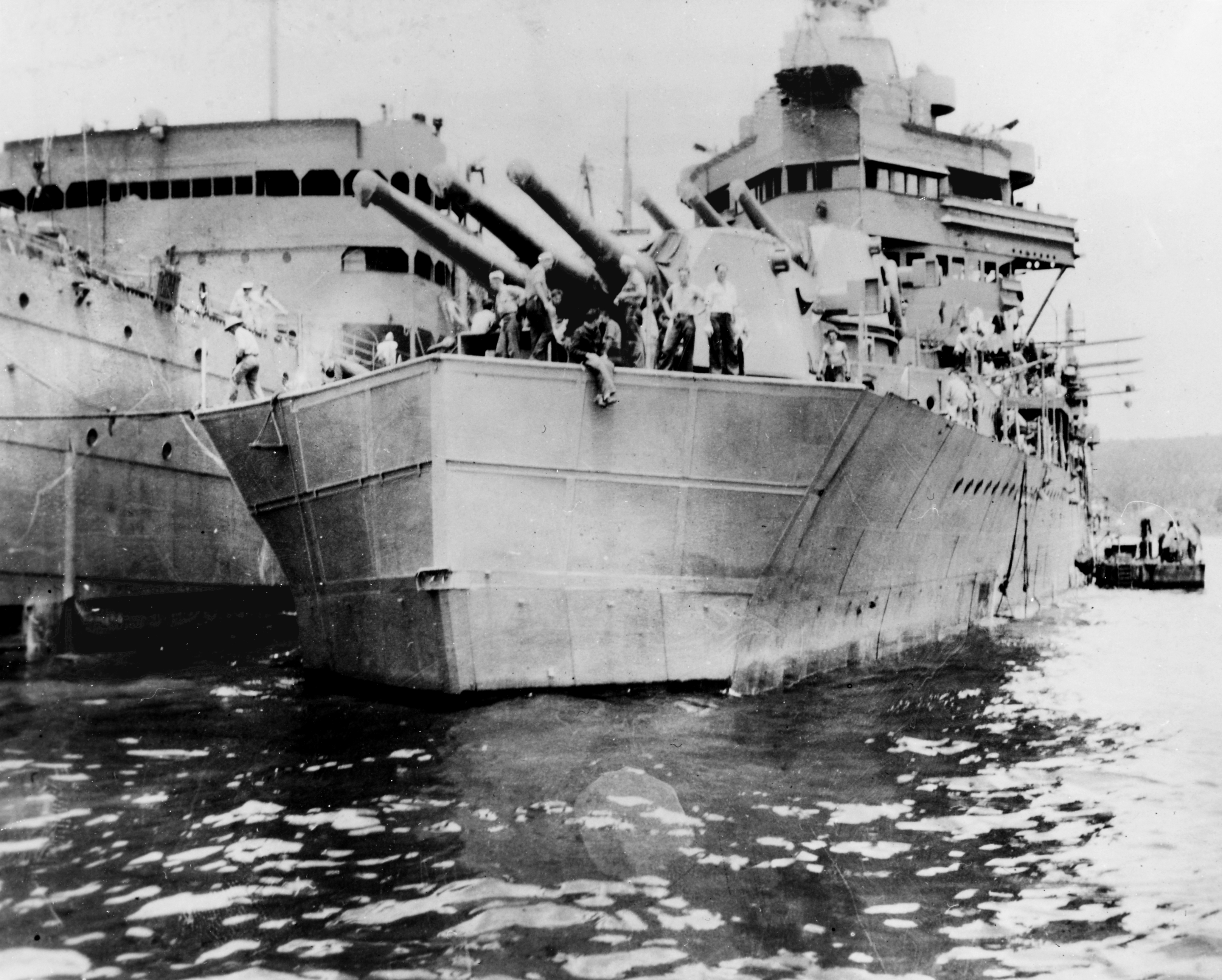 The U.S. Navy heavy cruiser USS Minneapolis (CA-36) at Espiritu Santo, New Hebrides, in January 1943, after being fitted with a short temporary bow for the voyage back to the United States for permanent repairs. Minneapolis had been torpedoed by Japanese destroyers during the Battle of Tassafaronga, off Guadalcanal on 30 November 1942.